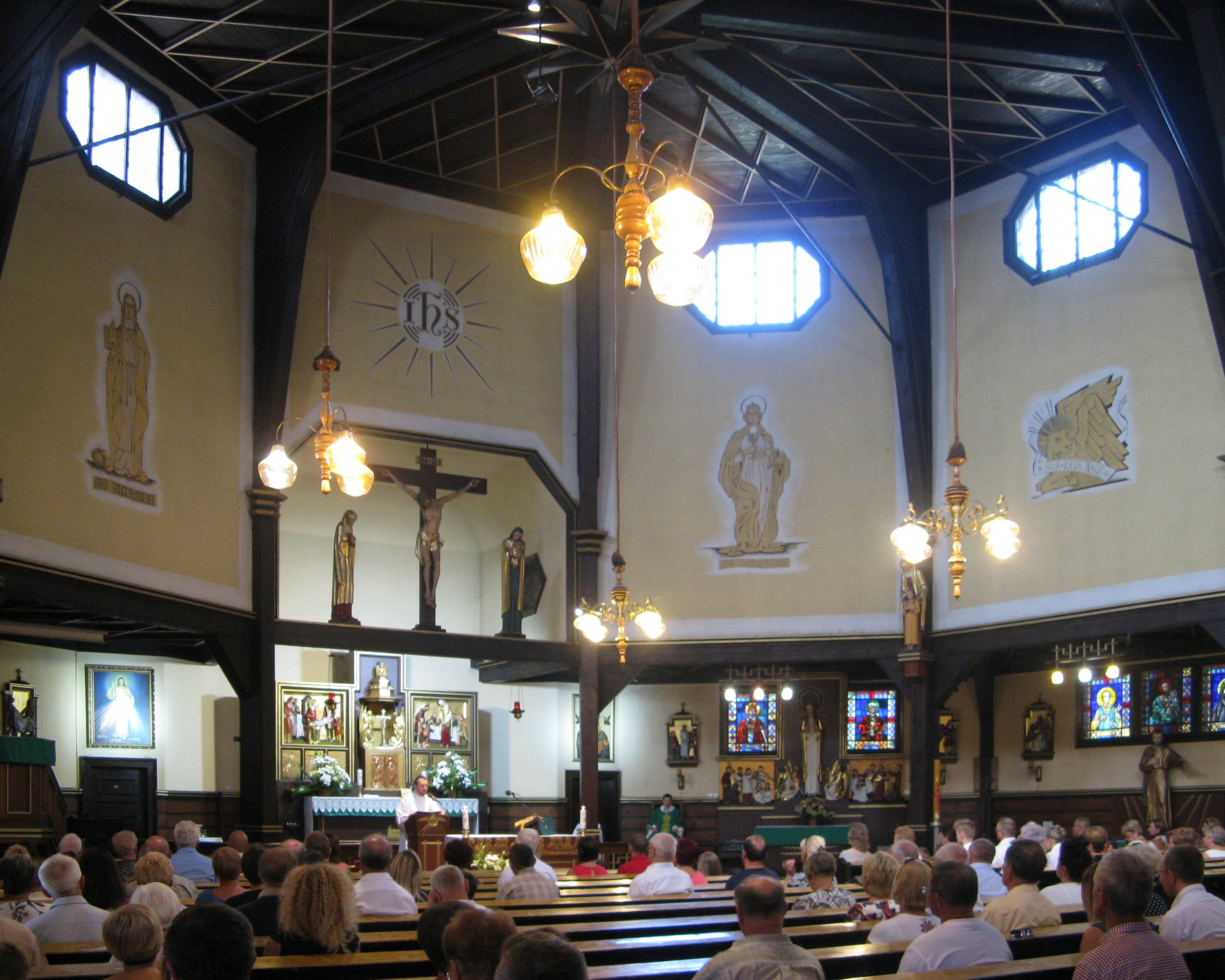 St. Hedwig's Church in Zabrze Zaborze (Poland) interior.